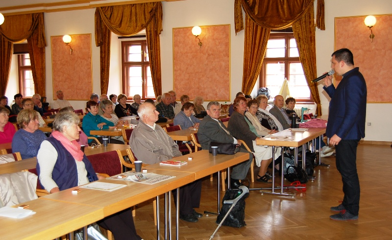 Tomas Zdechovský in the 11th diocesan meeting of elderly people in Hradec Kralove, 20. 6. 2015